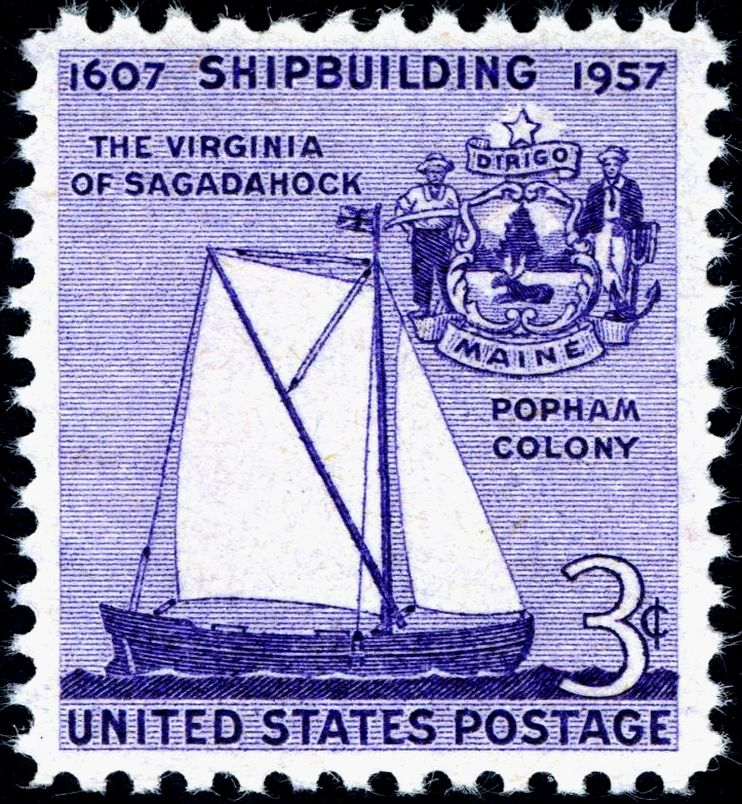 US Postage stamp, 1957 issue, shipbuilding, violet-blue, 3c